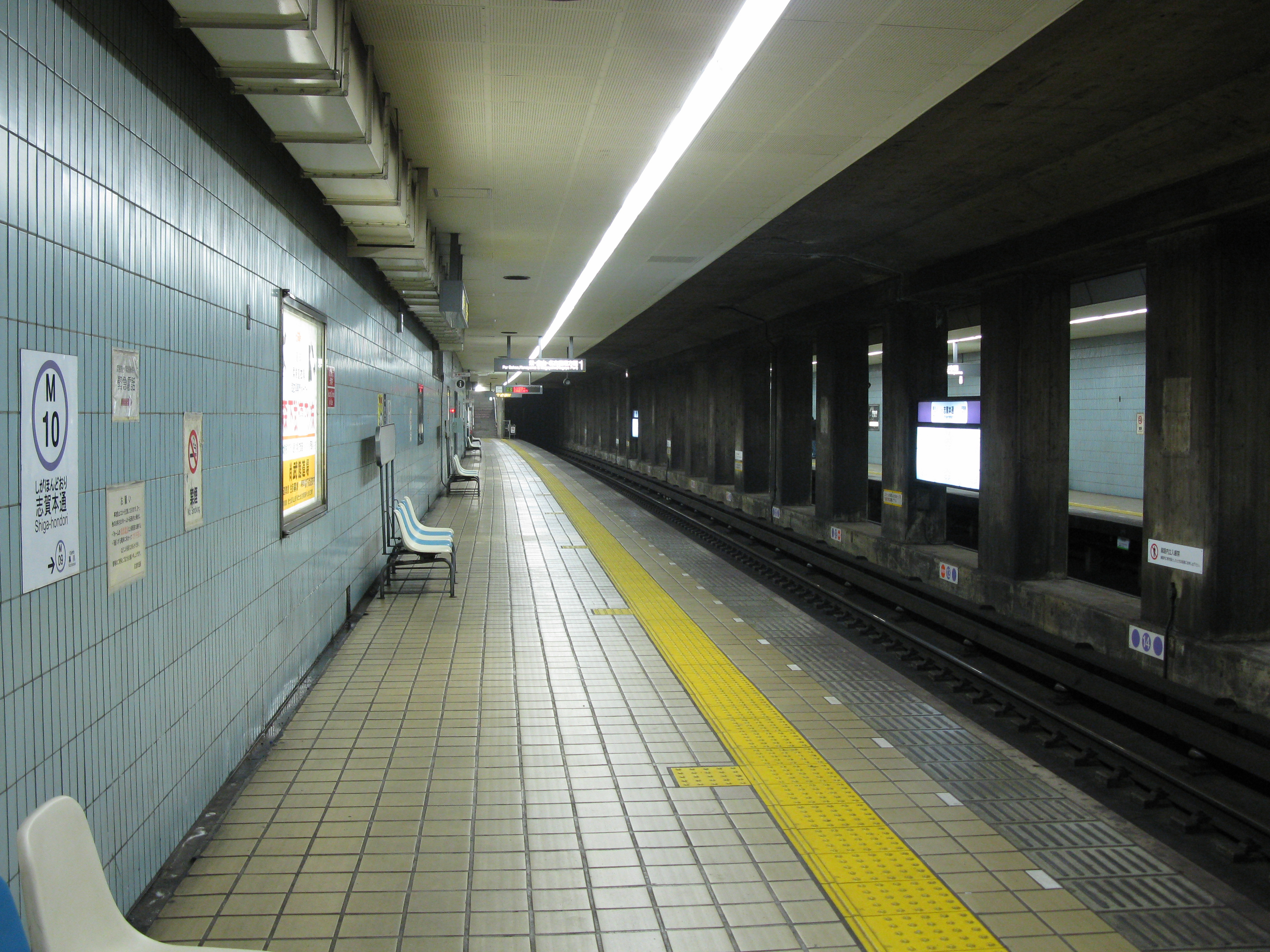 Shiga-hondōri Station platform (Nagoya Municipal Subway Meijō Line)